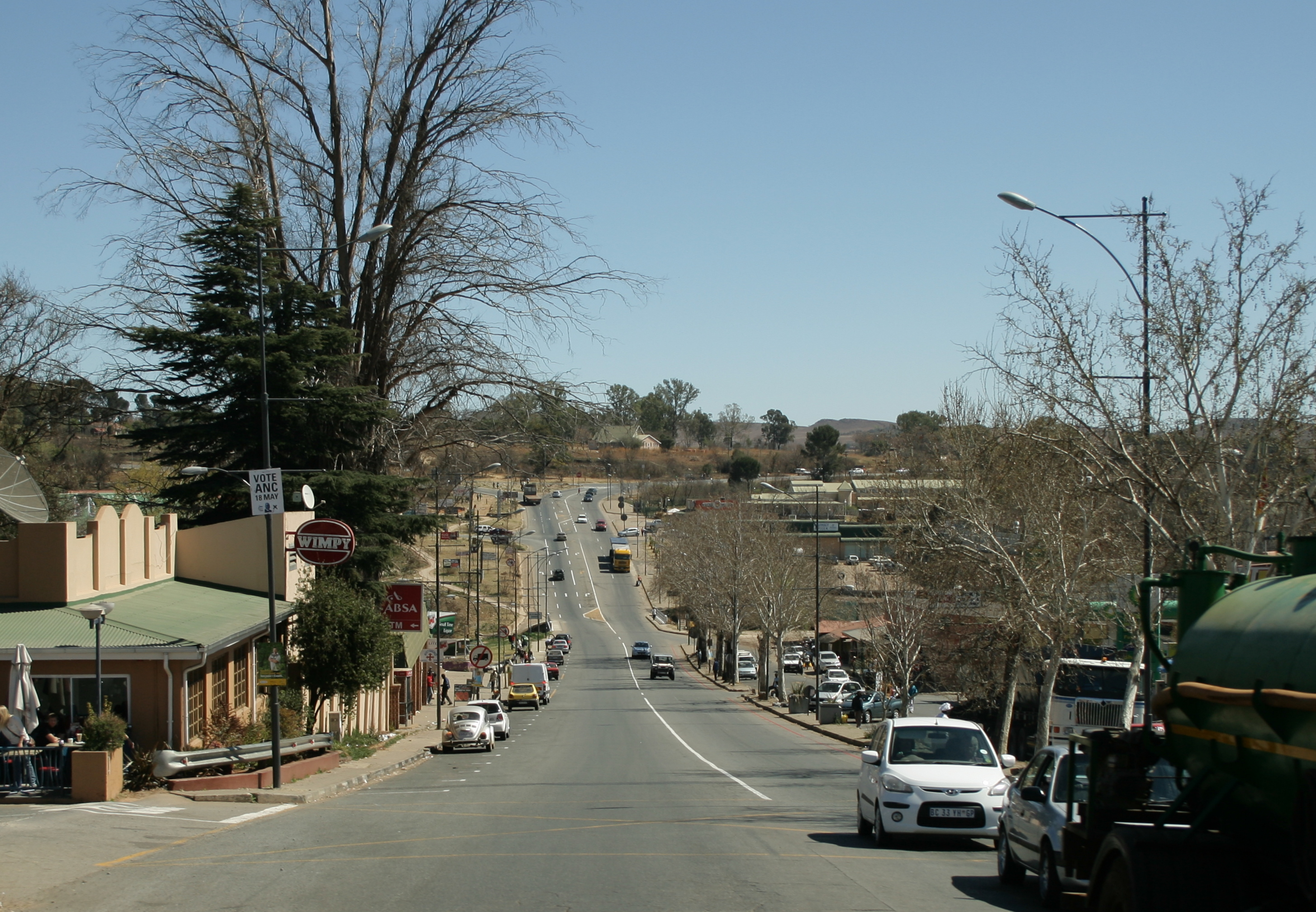 The main road through Magaliesberg, the R24